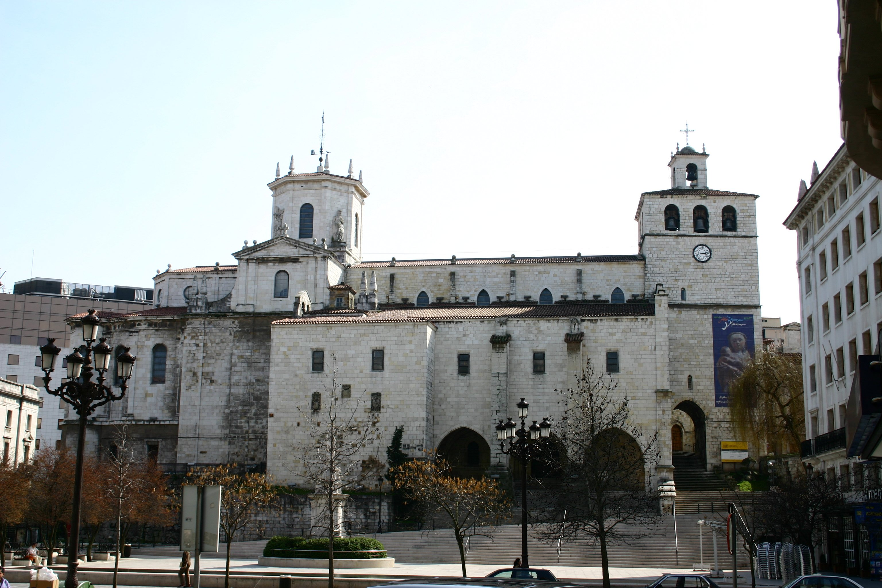 Exterior de la Catedral de Santander